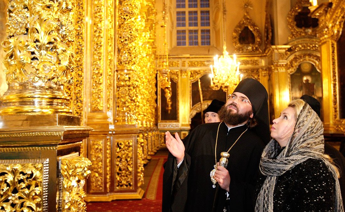 Bishop Theophilact of Smolensk and Svetlana Medvedeva inside the Dormition Cathedral in Smolensk